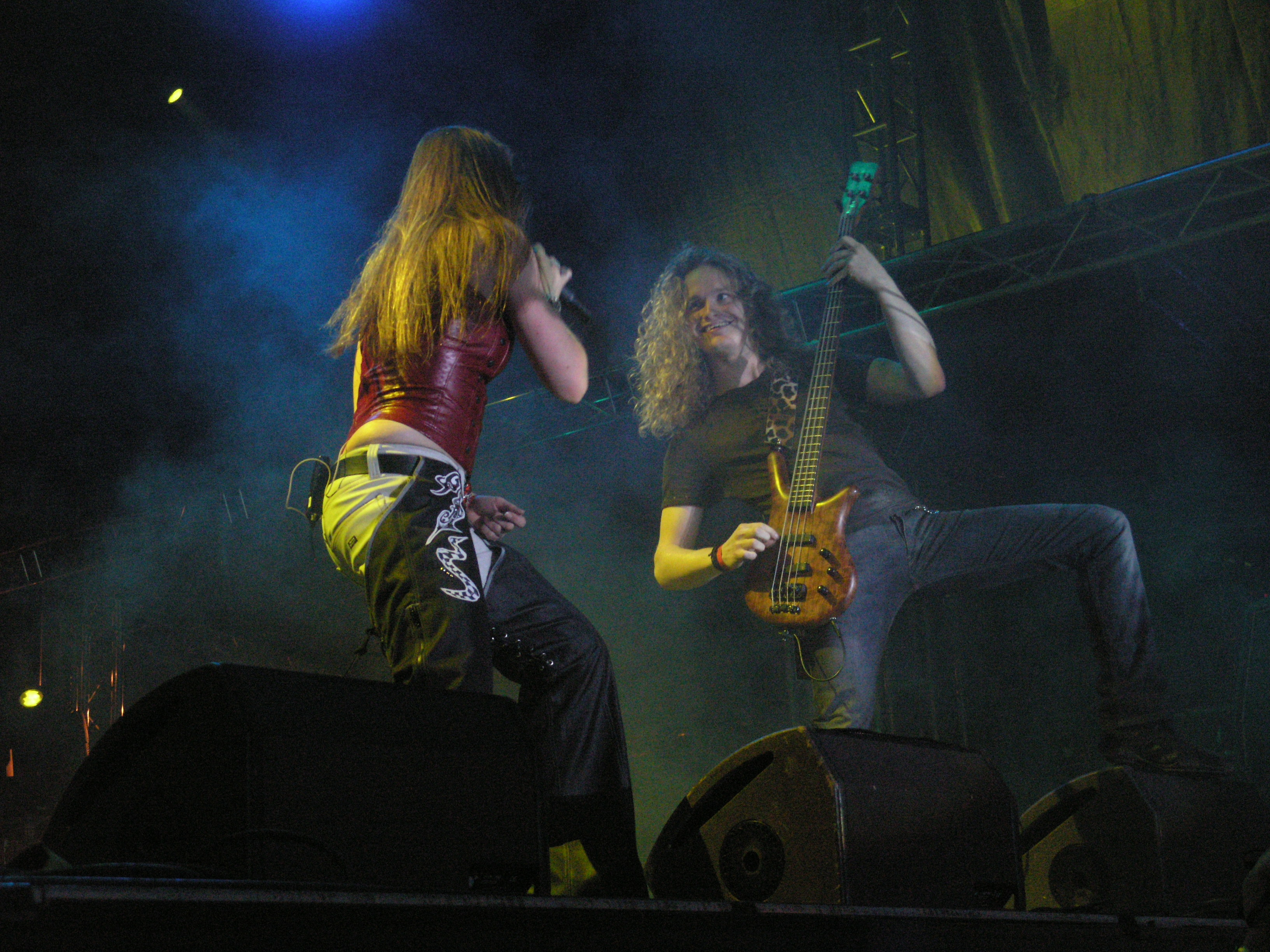 Music band After Forever during Masters of Rock 2007 festival